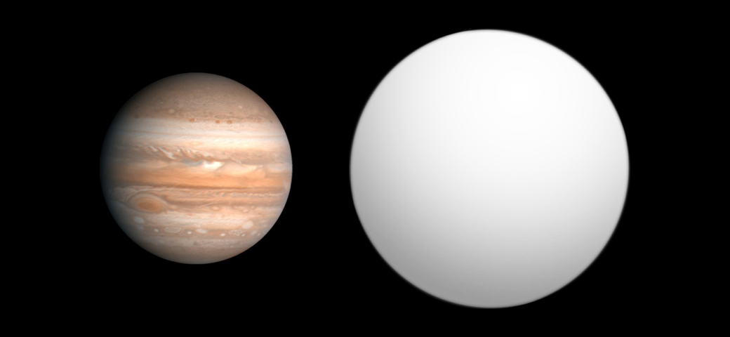 Comparison of best-fit size of the exoplanet WASP-3 b with the Solar System planet Jupiter, as reported in the Extrasolar Planets Encyclopaedia[1] as of 2010-10-03. ↑ Extrasolar Planets Encyclopaedia (2010-09-30). Retrieved on 2010-10-03.